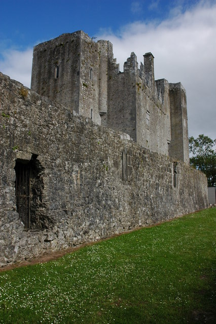 Barryscourt Castle was the seat of the Barry family from the 12th to the 17th centuries and is a fine example of a tower house.